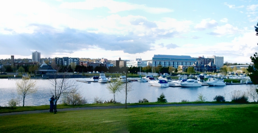 Port Arthur Skyline from Marina Park in Thunder Bay, Ontario